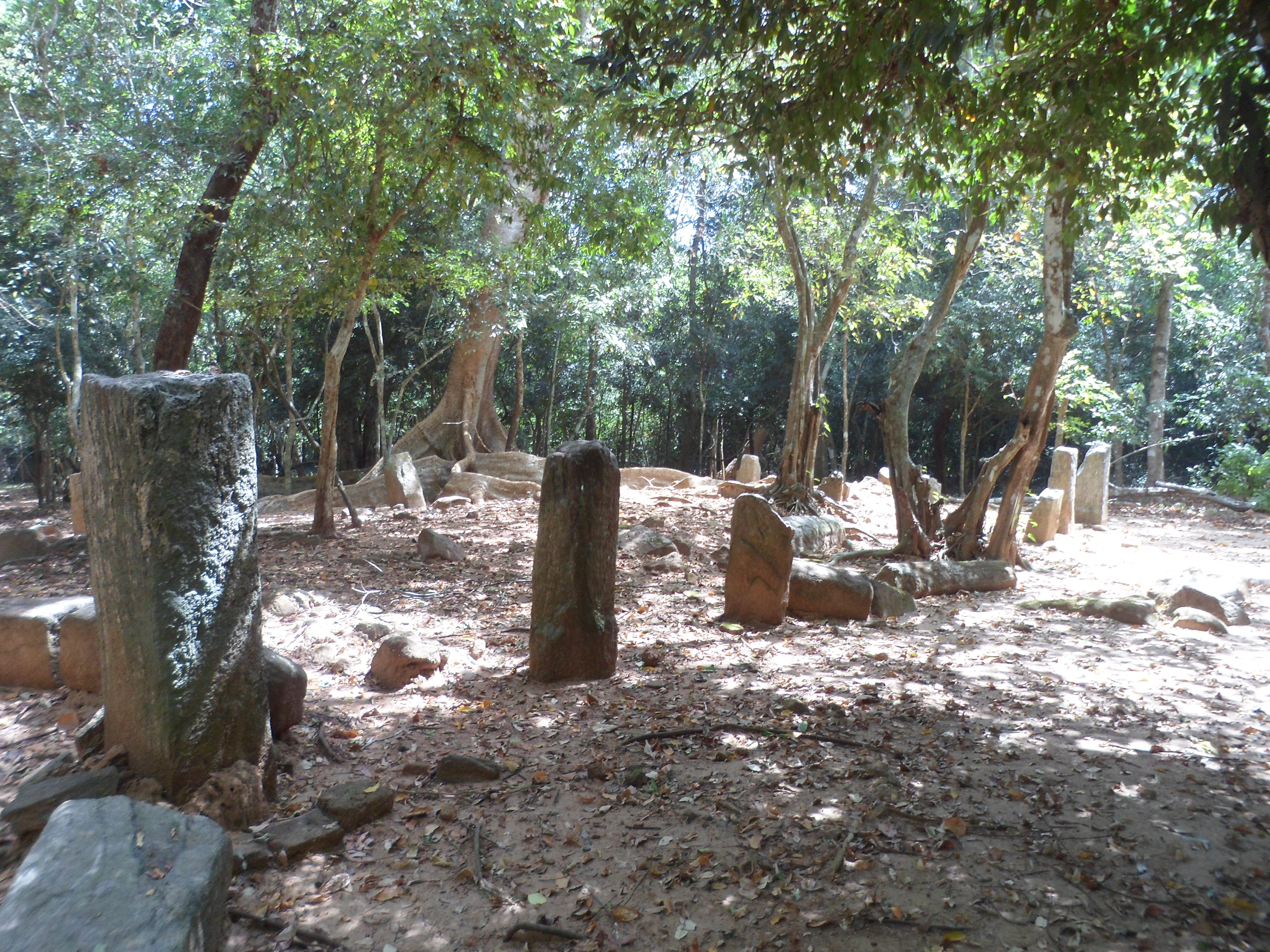 Ruins at Ovagiriya archaeological site